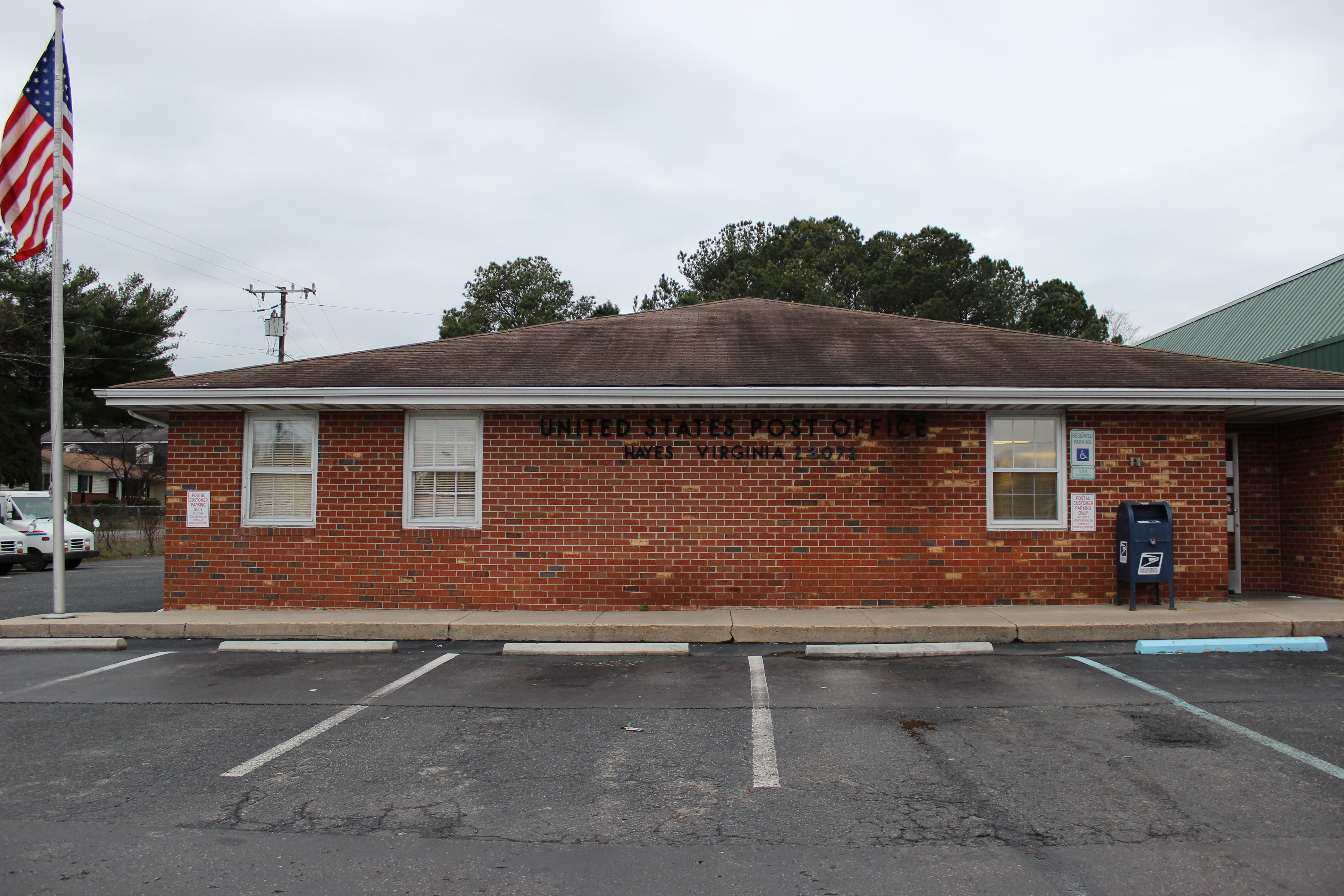 This is a U.S. Post Office, located at 2344 George Washington Memorial Highway, Hayes, VA, next to the Hayes Plaza Shopping center. This Post Office opened in 1980.